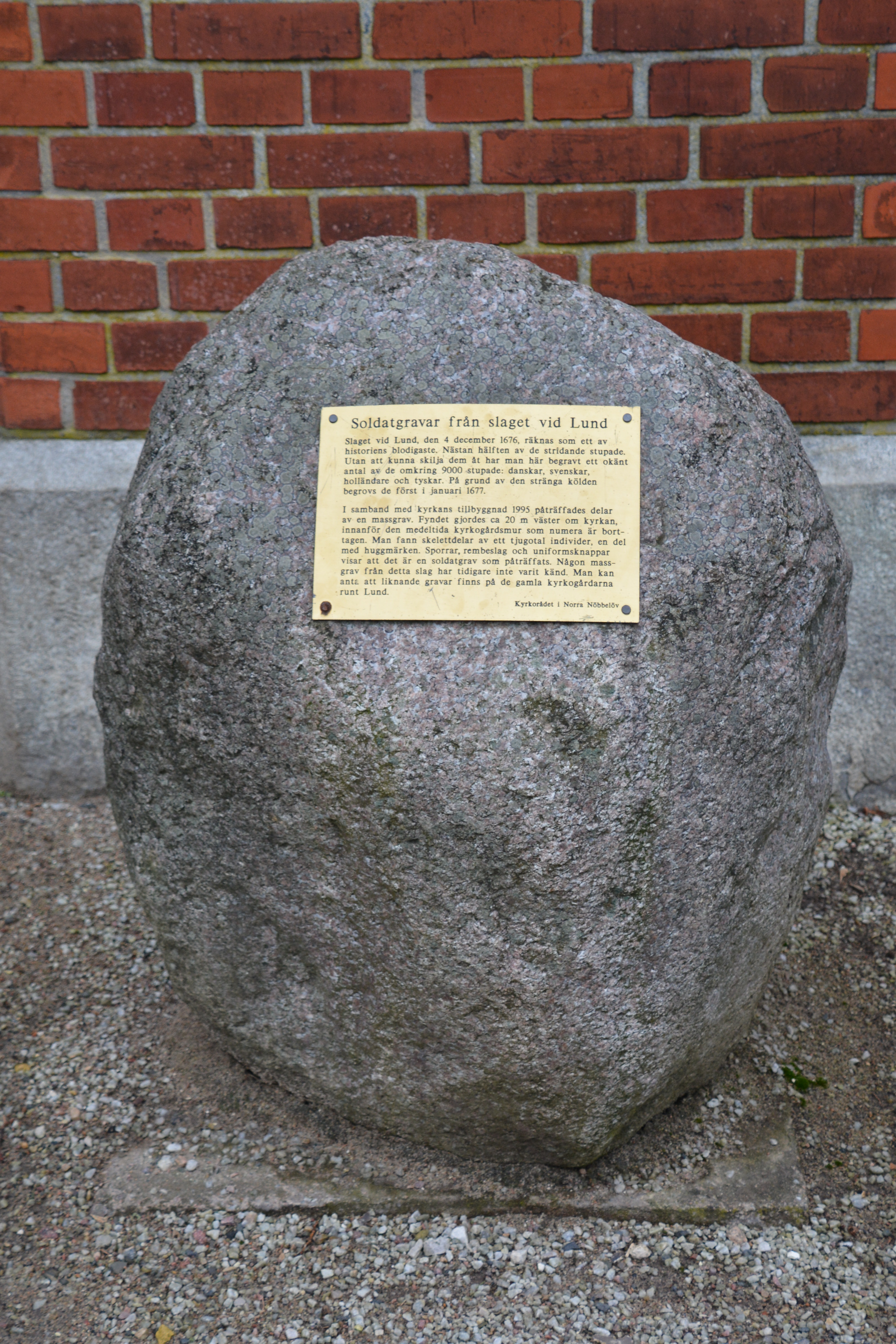 Minnessten vid Norra Nöbblövs kyrka över stupade vid slaget vid Lund 1676.